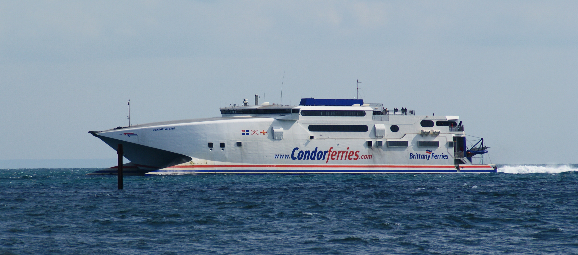 Condor Ferries Condor Vitesse catamaran car ferry heading into Poole Harbour.